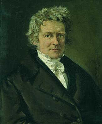 Portrait of the German mathematician Friedrich Wilhelm Bessel by the Danish portrait painter Christian Albrecht Jensen